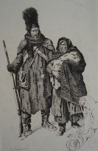 photography of wy own